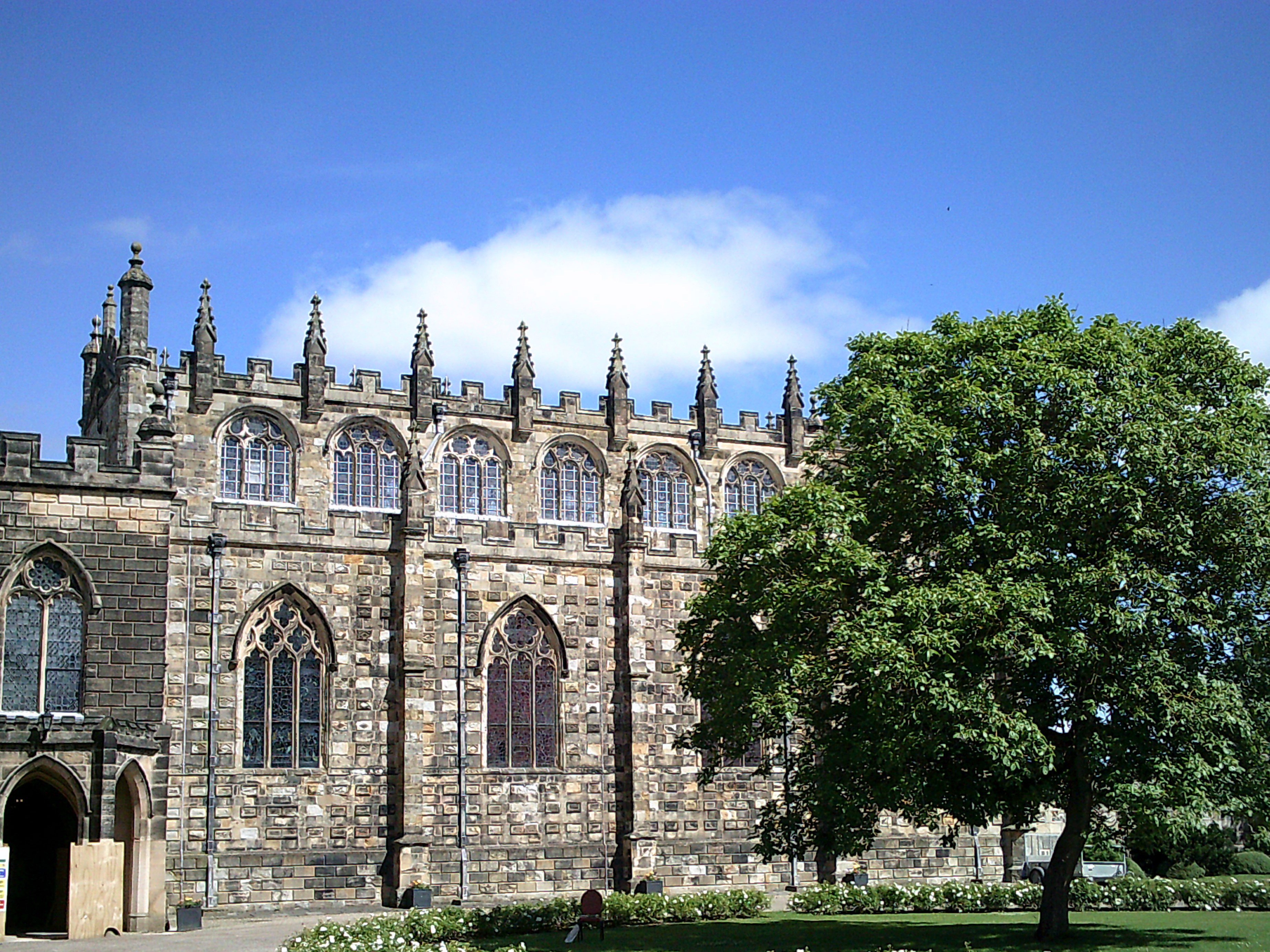 Chapel Of St Peter At Auckland Castle Wikidata has entry Q17529831 with data related to this item.